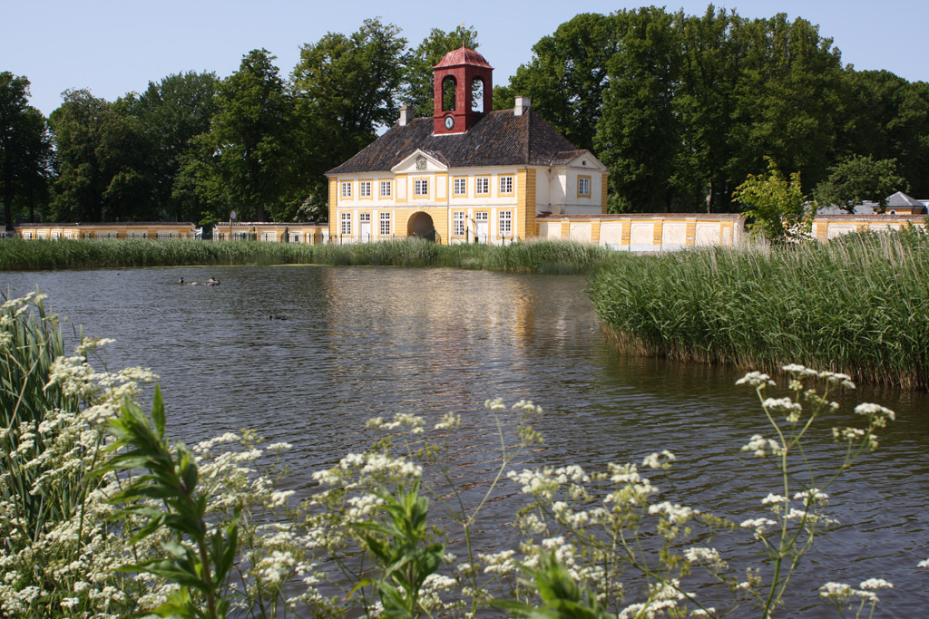 valdermars castle 2008. denmark.